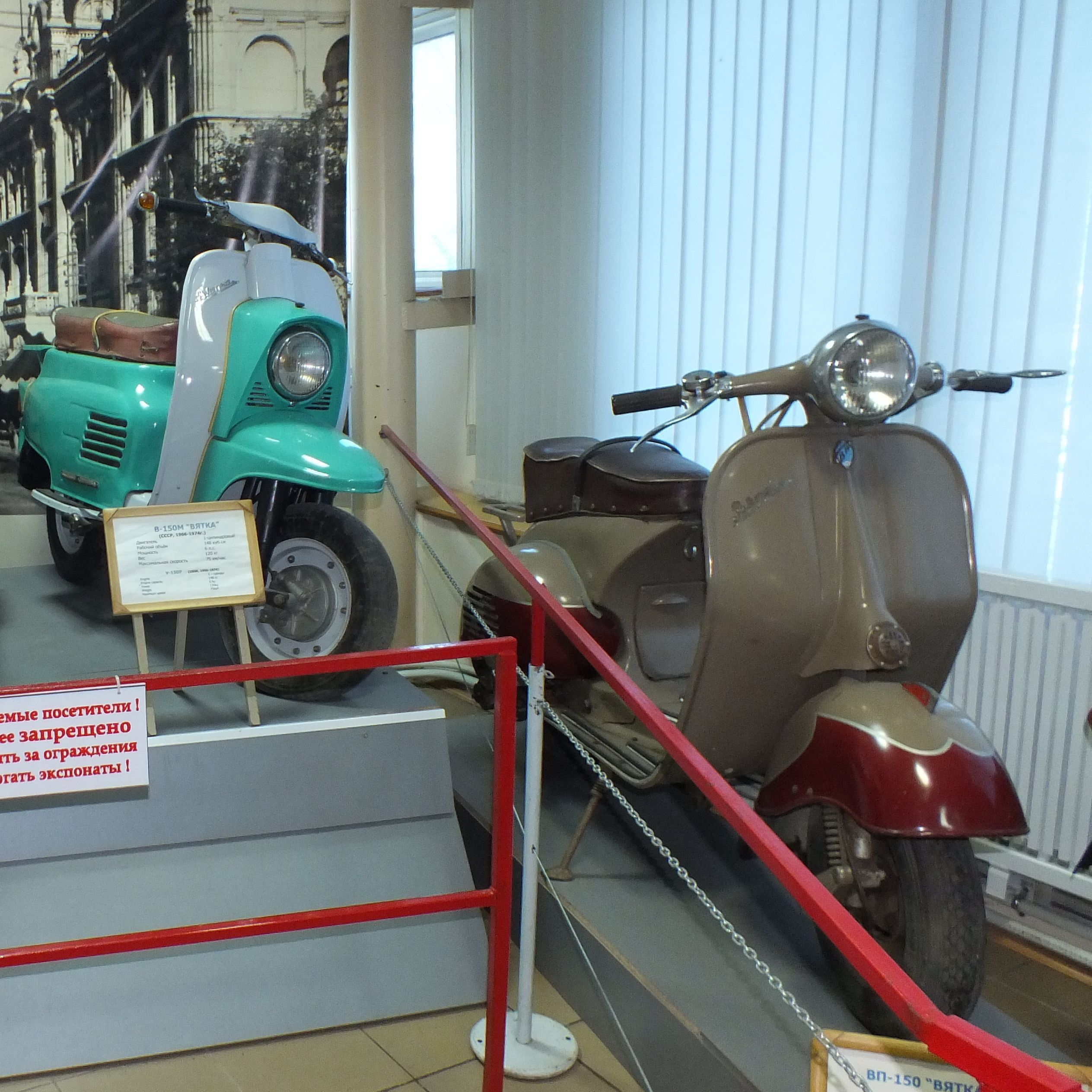 Motorcycles of Russia